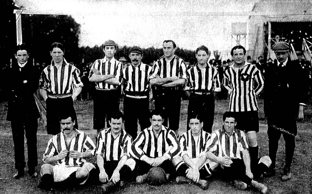 Photo of Estudiantes de Buenos Aires team, taken in 1907.